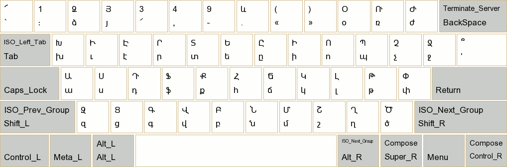 The Eastern Armenian keyboard layout that ships with Windows XP; it has recently been included in Linux, via .